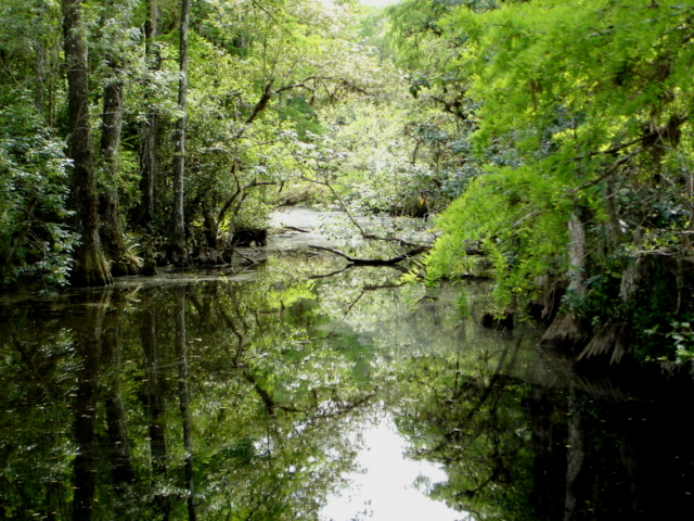 Swamp in the Everglades, Florida, USA